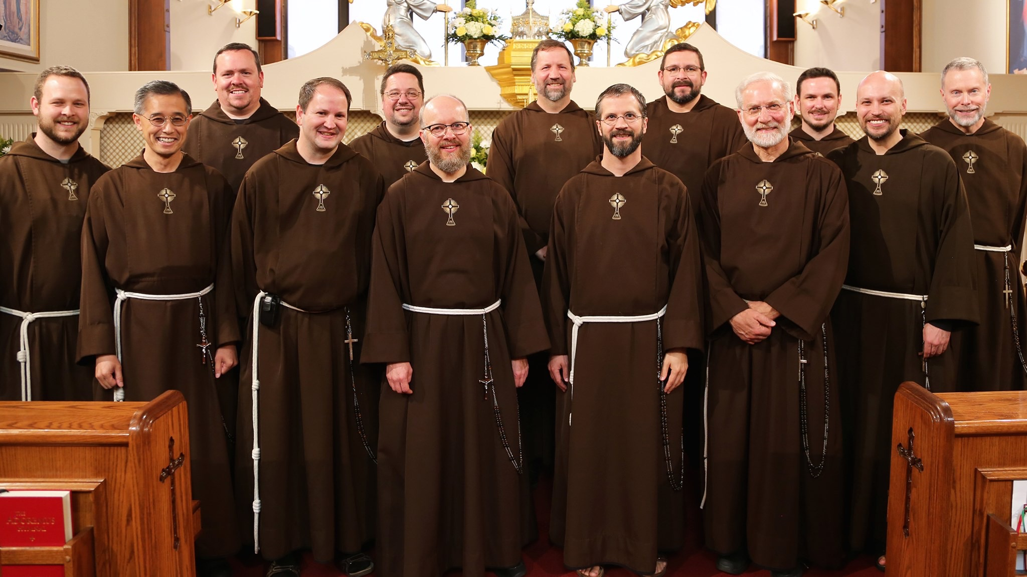 MFVA elections 2019